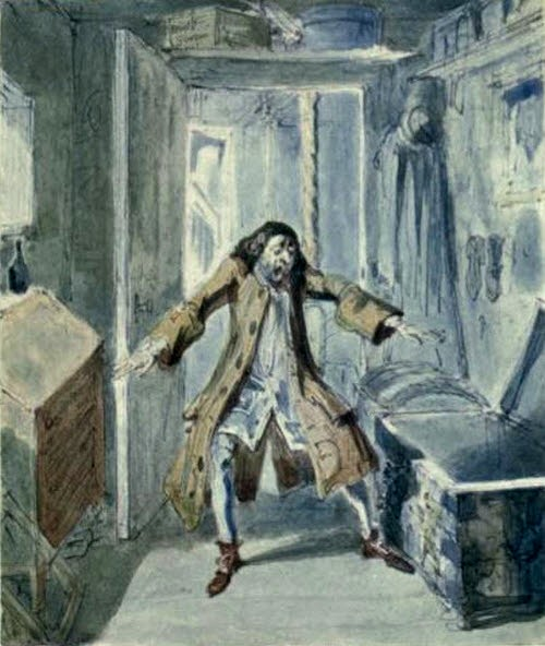 George Cruickshank's "The Miser Discovers the Loss of the Mortgage Money", an illustration to Harrison Ainsworth's novel The Miser’s Daughter , first published in Ainsworth's Magazine in 1842